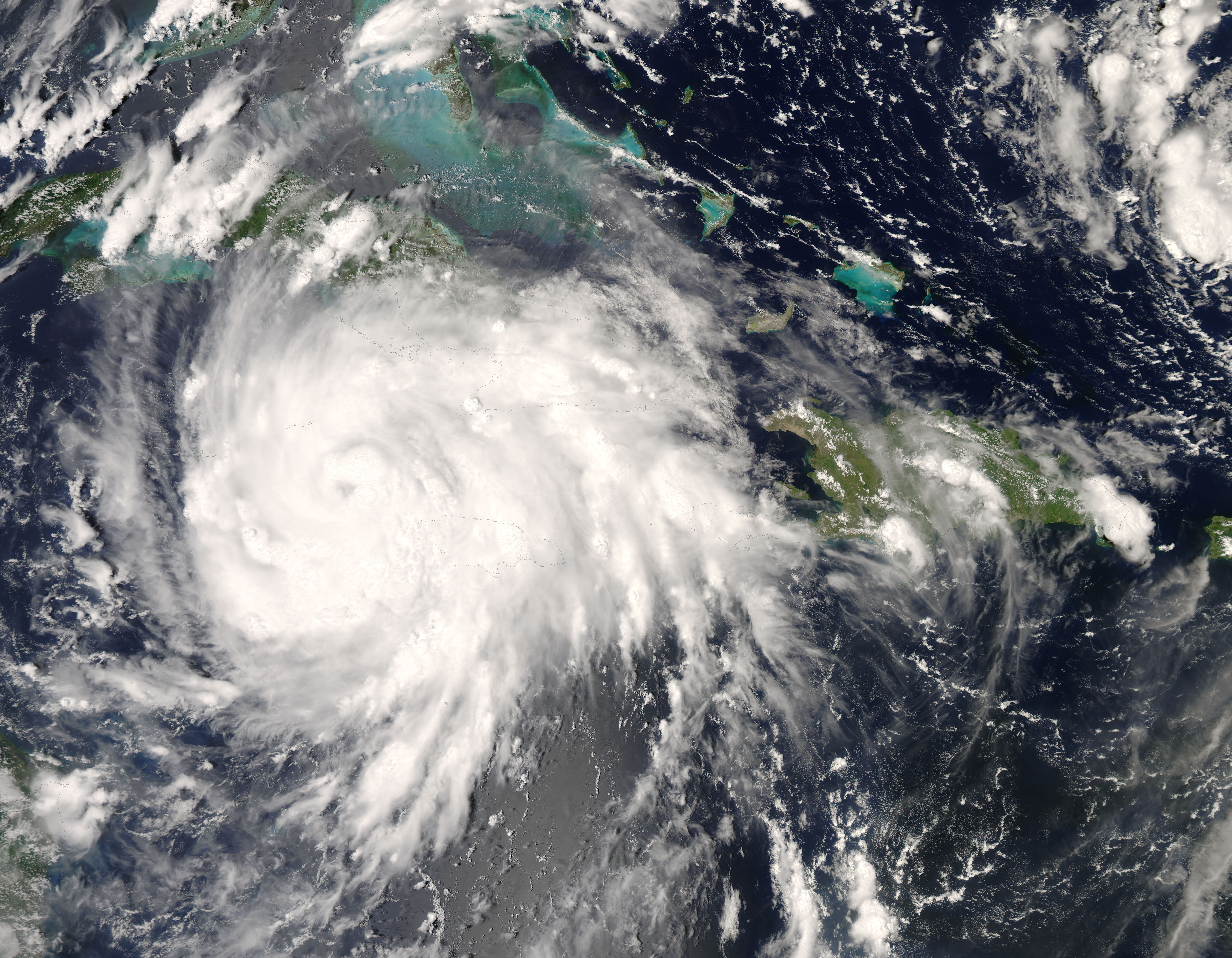 Hurricane Gustav at 2008-08-29 in the Caribbean.